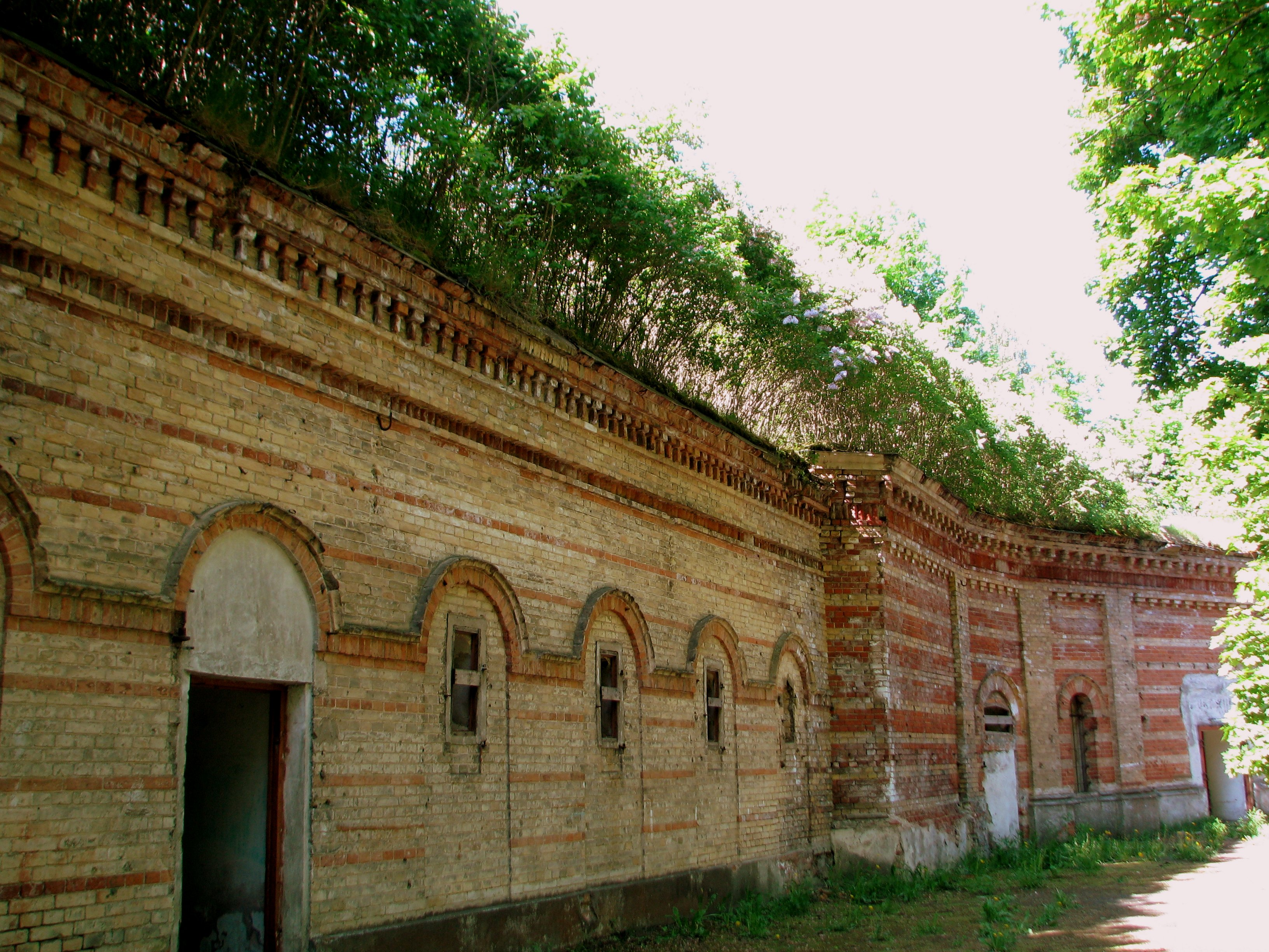 Fort of Daugavgriva, Dunamunde